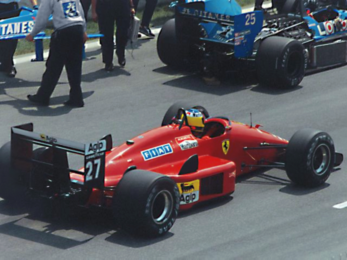 Michele Alboreto on the grid at the 1988 Canadian Grand Prix